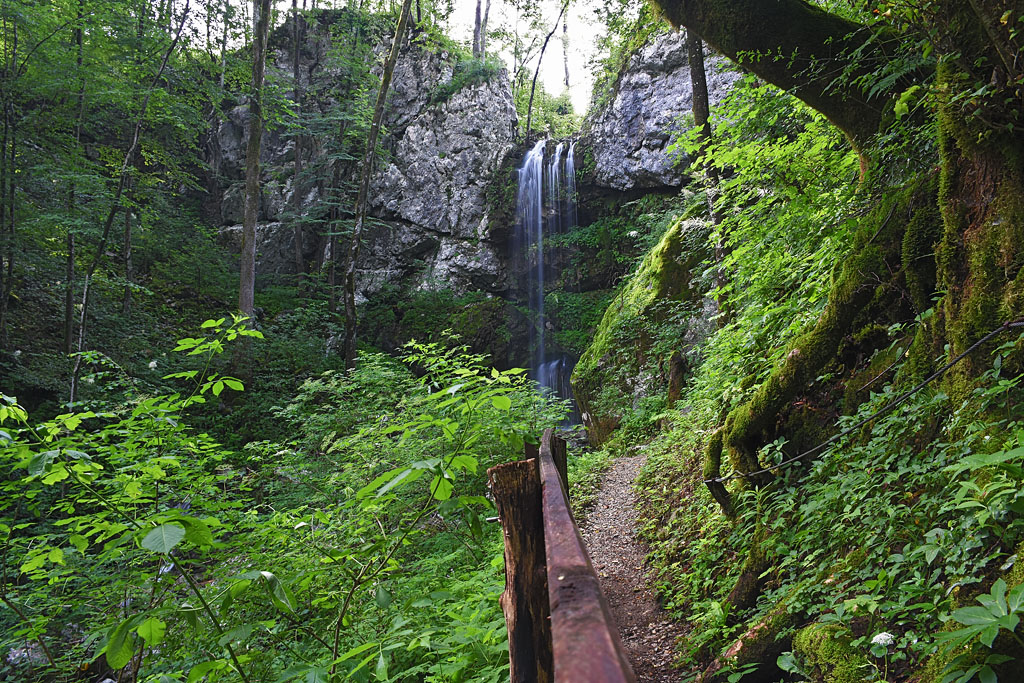 Below the terrace with Svino village, there's a small waterfall. Usually it has not much water, but the place is cute and also the tourist round trail (Gamsova pot) visits it.